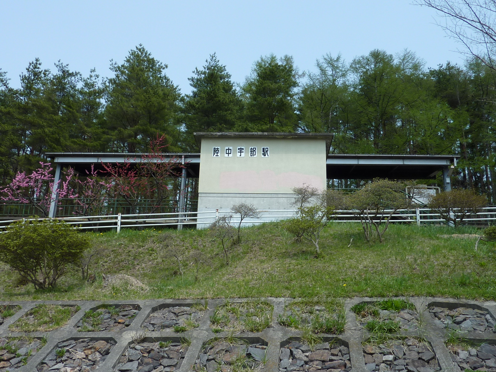 Rikuchu-Ube Station on Sanriku Railway Kita Riasu Line in Ubecho, Kuji City, Iwate Prefecture, Japan)